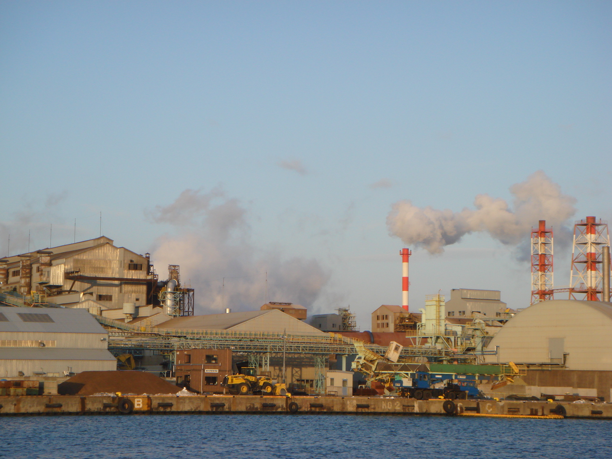 The first industrial port is looked at in Hachinohe city Aomori,Japan.